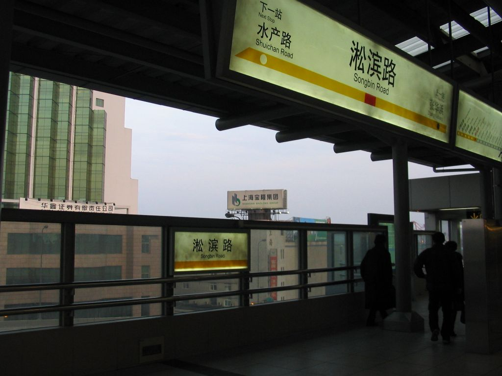 淞濱路站-3號線月台 Line 3 Platform of Songbin Road Station